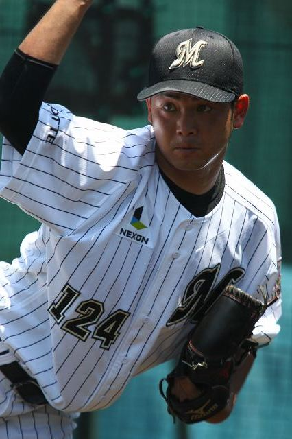 Junya Ishida, pitcher of the Chiba Lotte Marines.